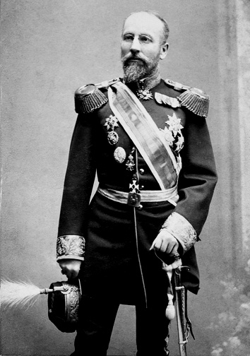 General Sava Grujić, Prime Minister of the Kingdom of Serbia (1840 - 1913)